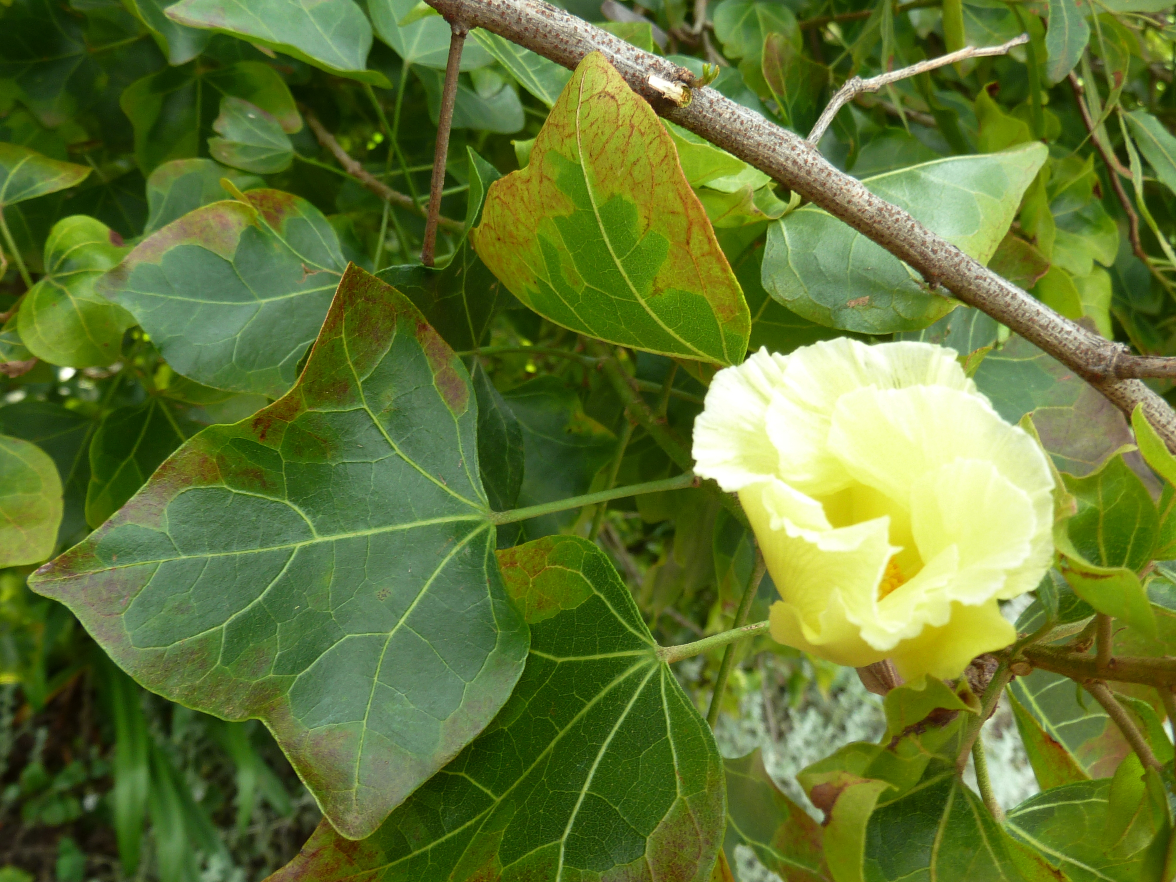 Foliage and flower of a Wild tulip tree in Walter Sisulu National Botanical Garden